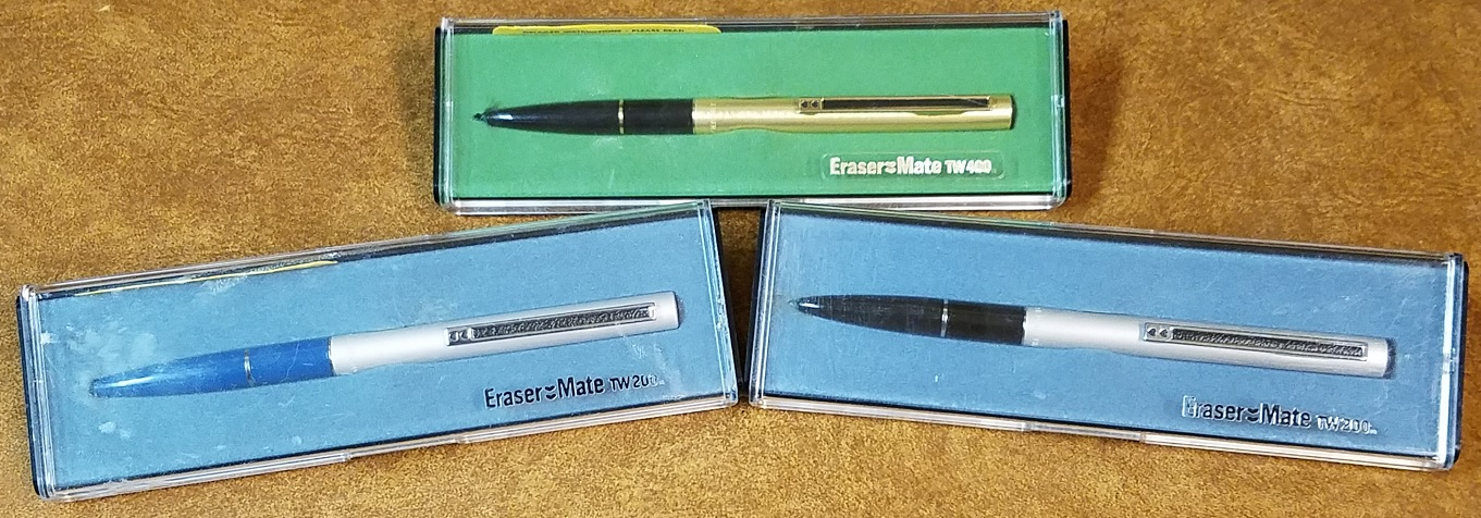 These are my 3 TW's viewed in their original cases. From the pen tips, you can see these are a Blue and Black ink TW200 and a Black ink TW400.